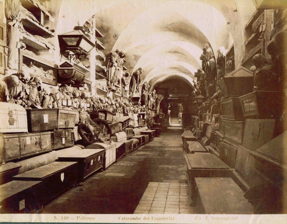 Eugenio Interguglielmi (1850-1911), " Palermo - Catacombs of the Capuchines" Catalogue number: 340.